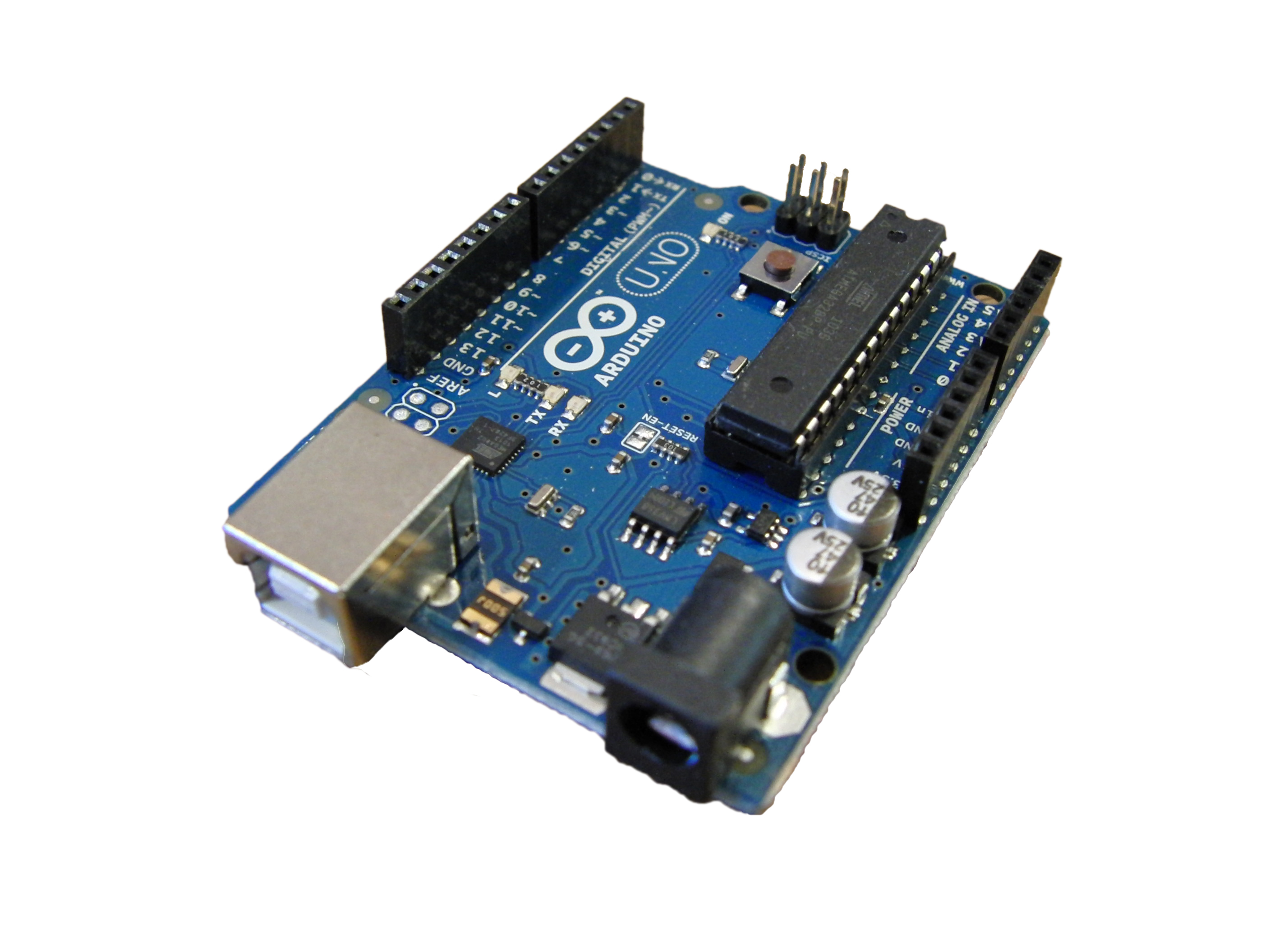 A Arduino Uno board.